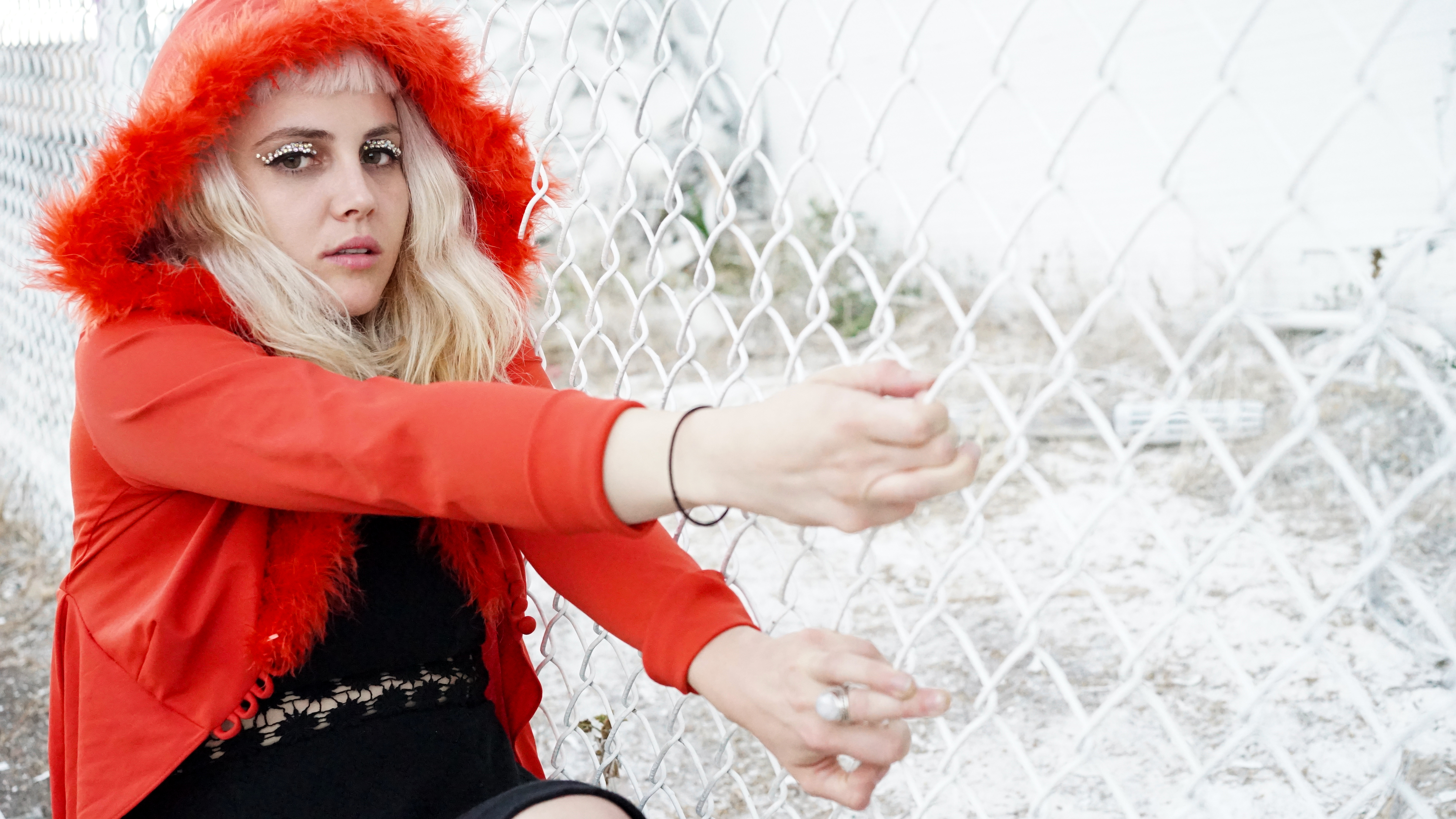 Promo shot of the musician Globelamp